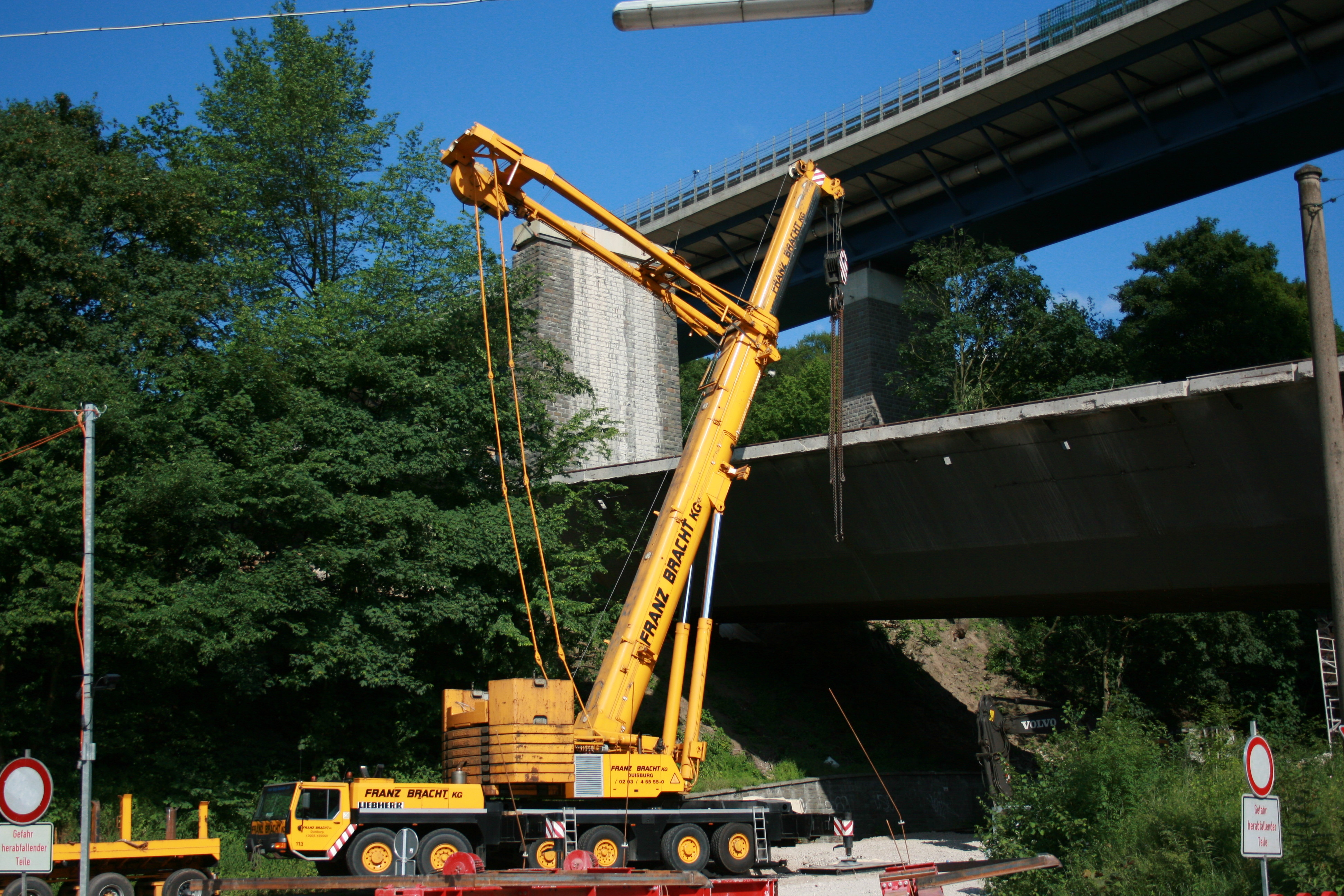 Disassembling of the northern bridge part